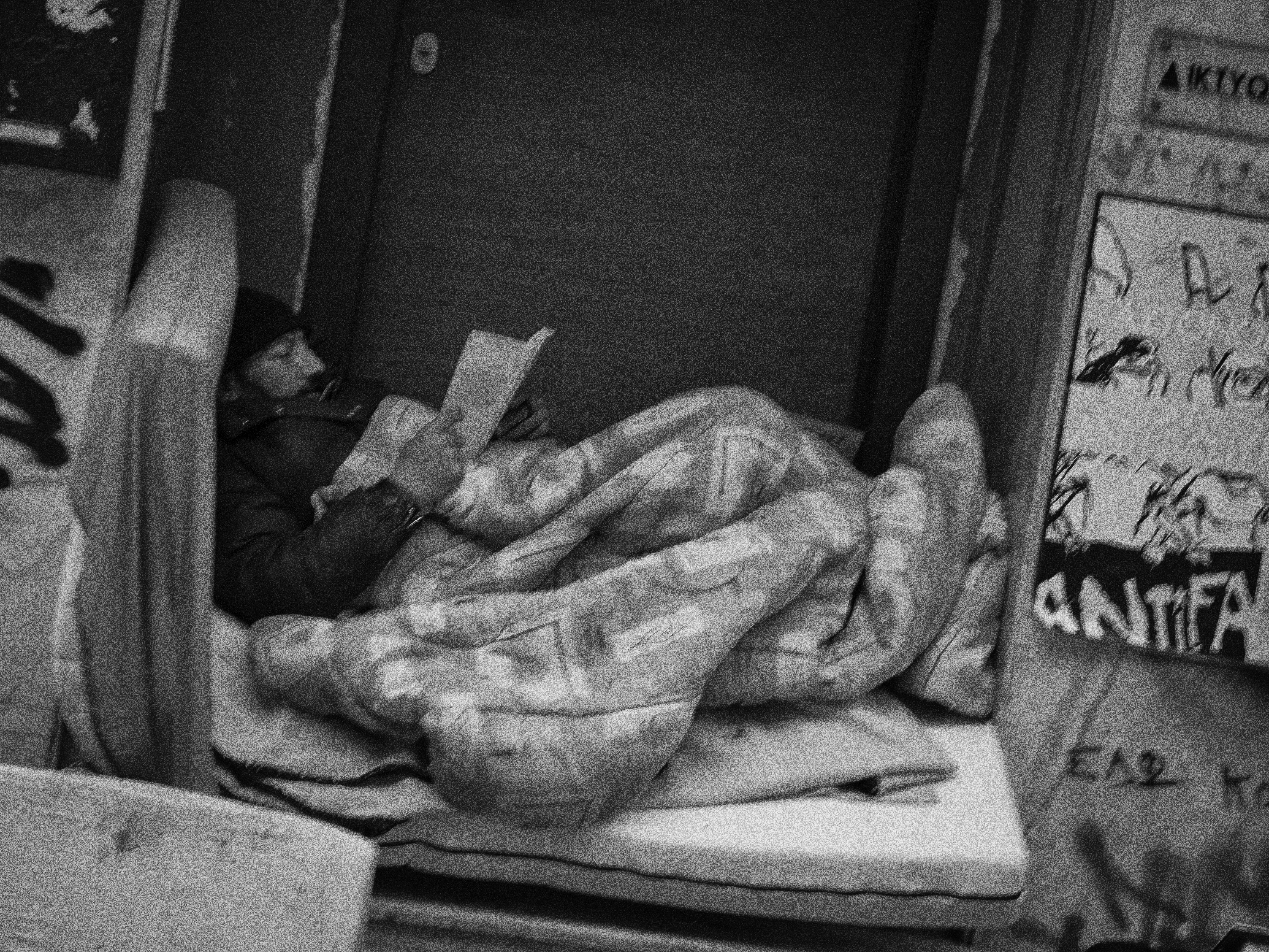 Homeless, reading; Athens, Exarchia